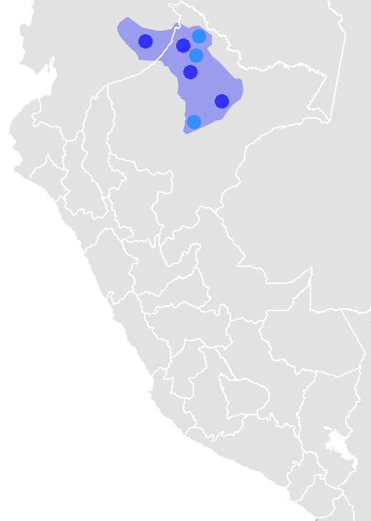 Zaparoan languages. Dots indicate documented locations of languages, shadowed areas indicate probable pre-quechua extension. Based on data of Mary Ruth Wise "Small languages families and isolates in Peru" in The Amazonian Languages, Dixon & Alexandra Y. Aikhenvald (eds.), Cambridge: Cambridge University Press, 1999. p. 307-340. Also Ethnologue map of Peru